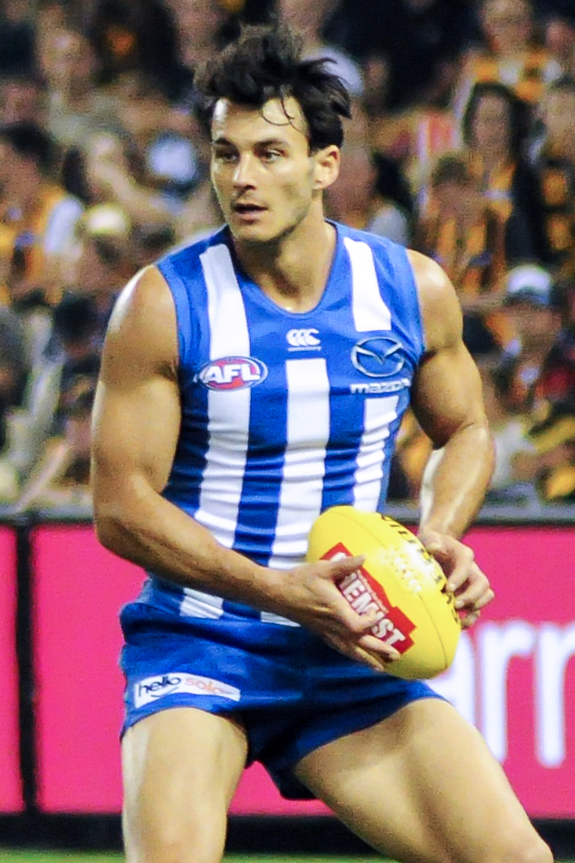 Robbie Tarrant during the AFL round five match between North Melbourne and Hawthorn on Sunday, 22 April 2018 at Etihad Stadium in Melbourne, Victoria.